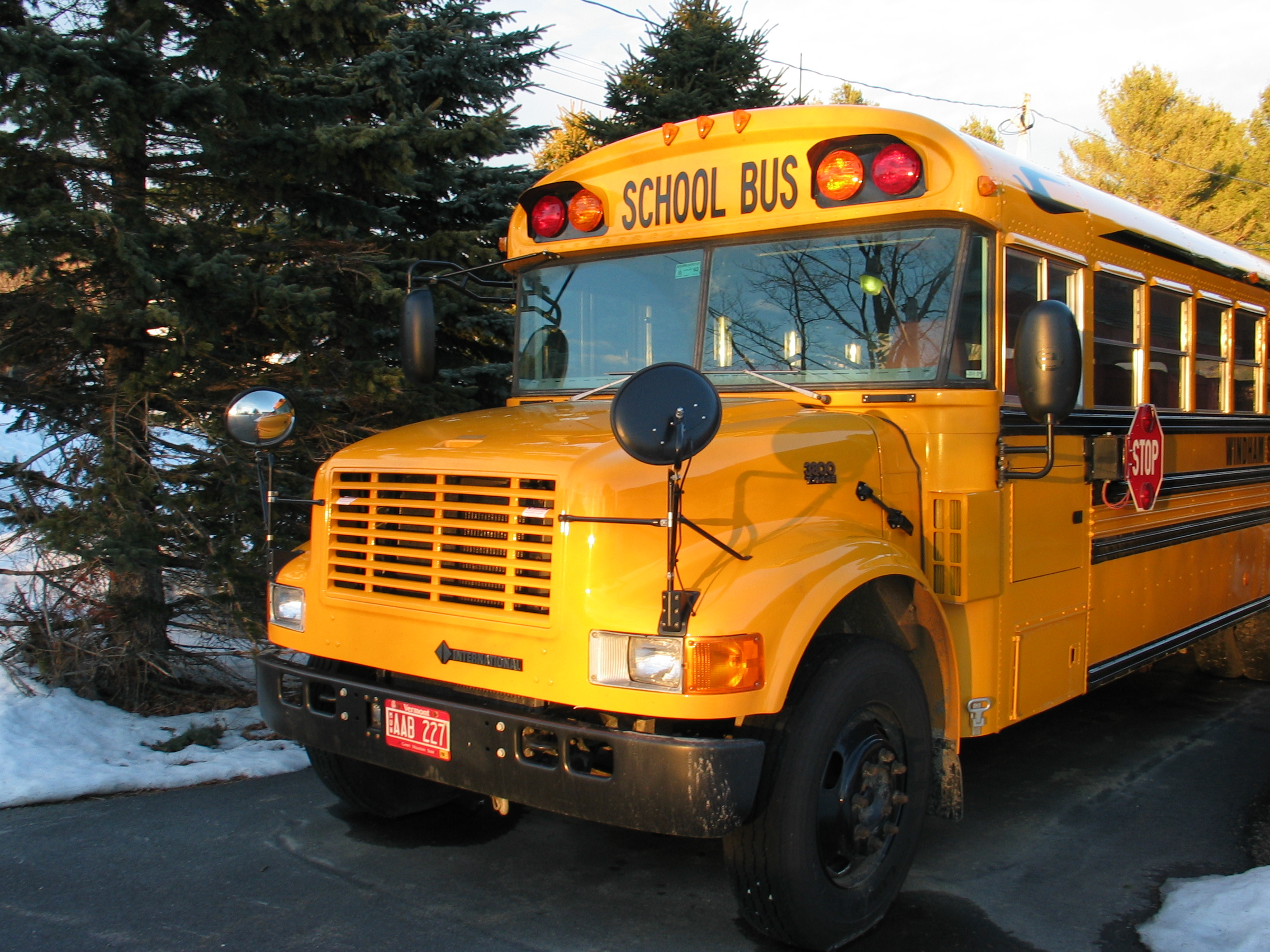 Front of a yellow school bus.